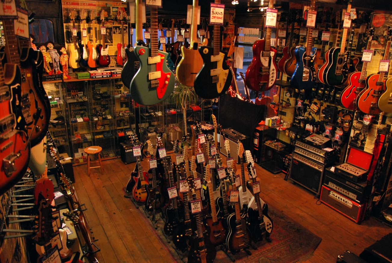 Music Ground, 27 Denmark Street, Covent Garden, London